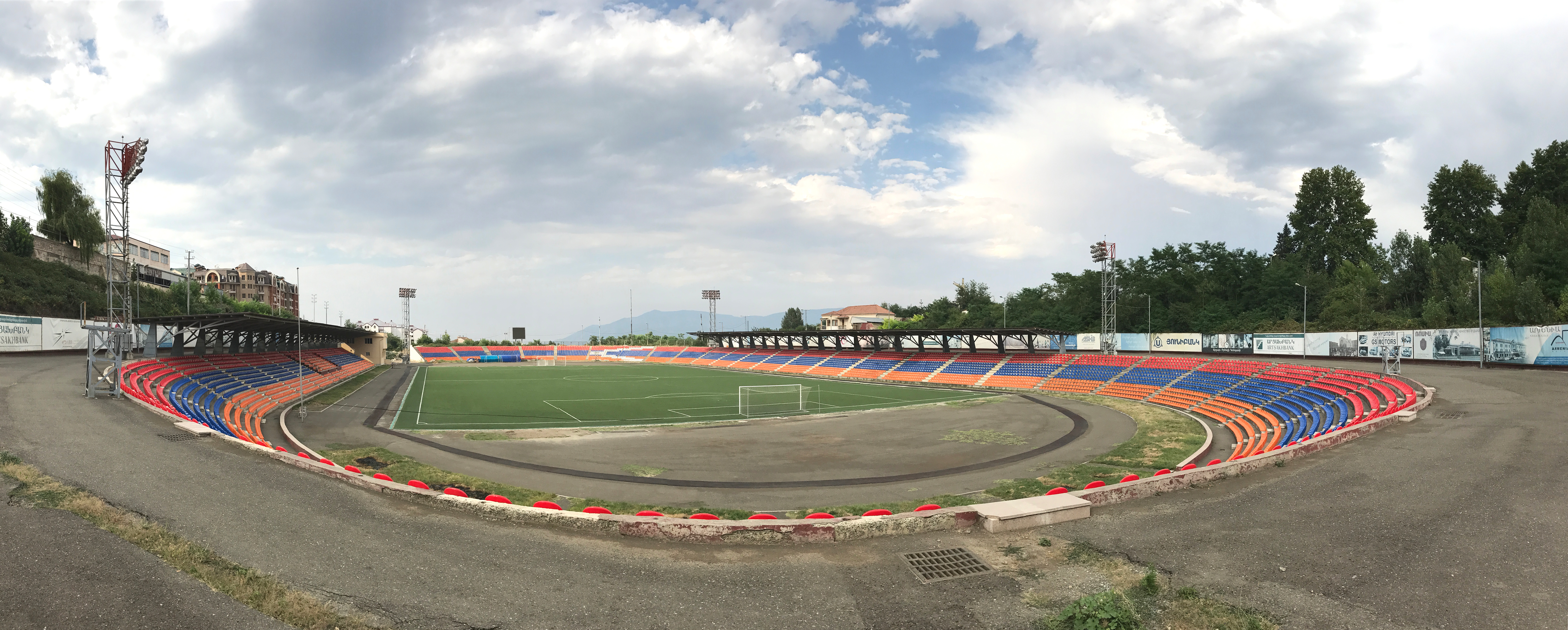 Stepanakert Stadium in 2017.